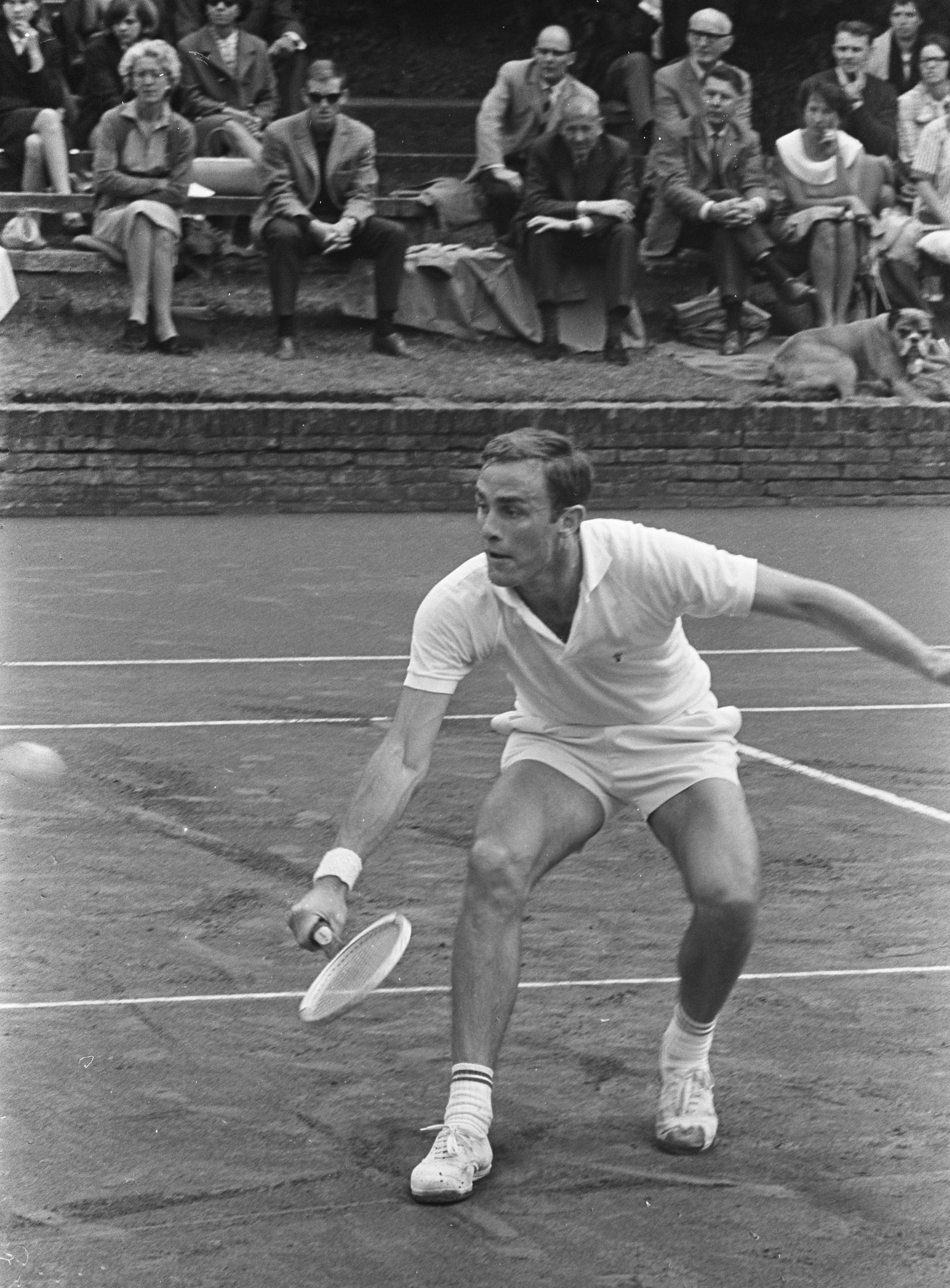 Tennis at Hilversum, Netherlands (1965 Dutch Open), Australian tennis player John Newcombe in action against Cooper